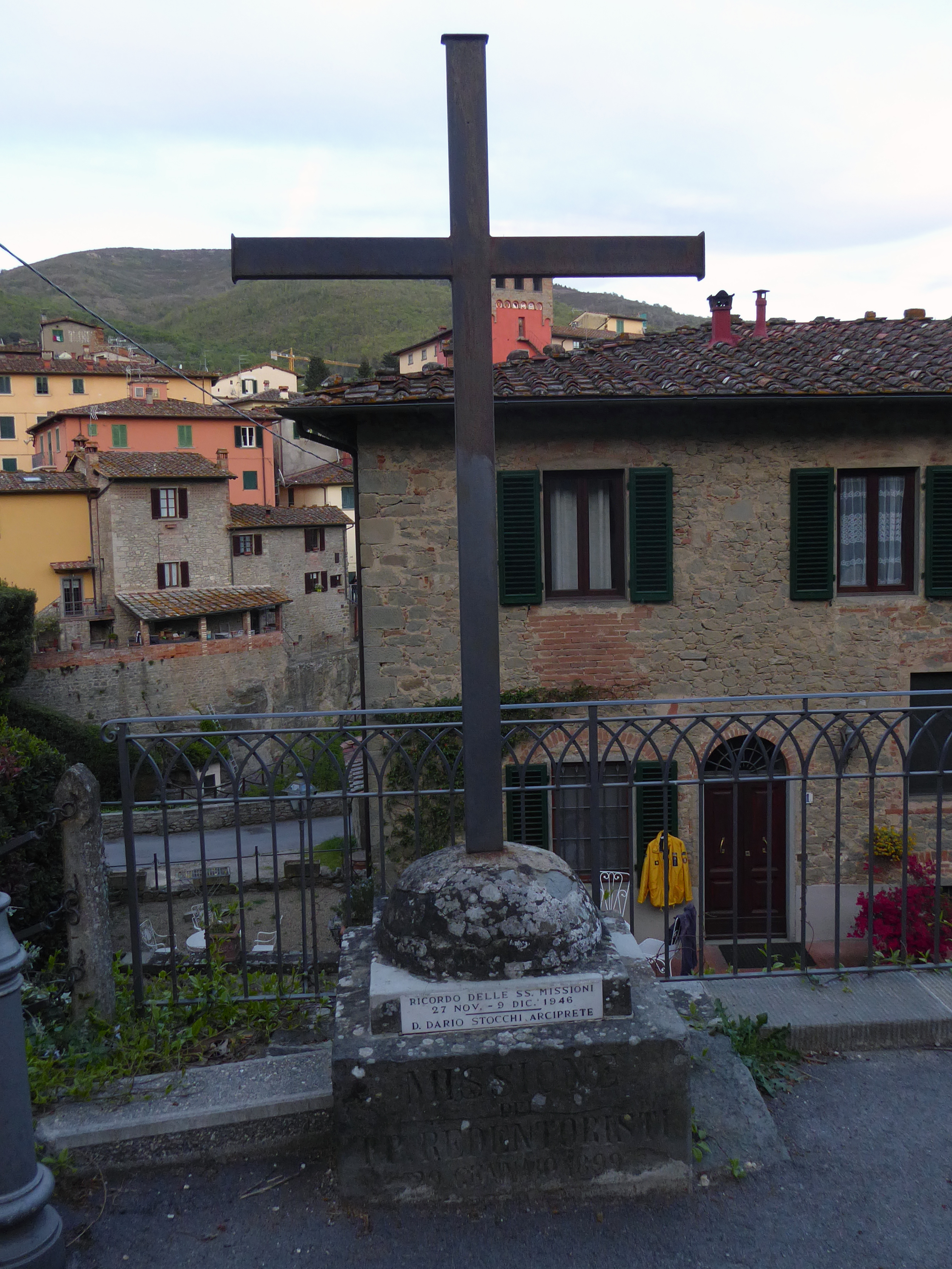 Wayside memorial cross in Loro Ciuffenna (Arezzo, Tuscany, Italy)